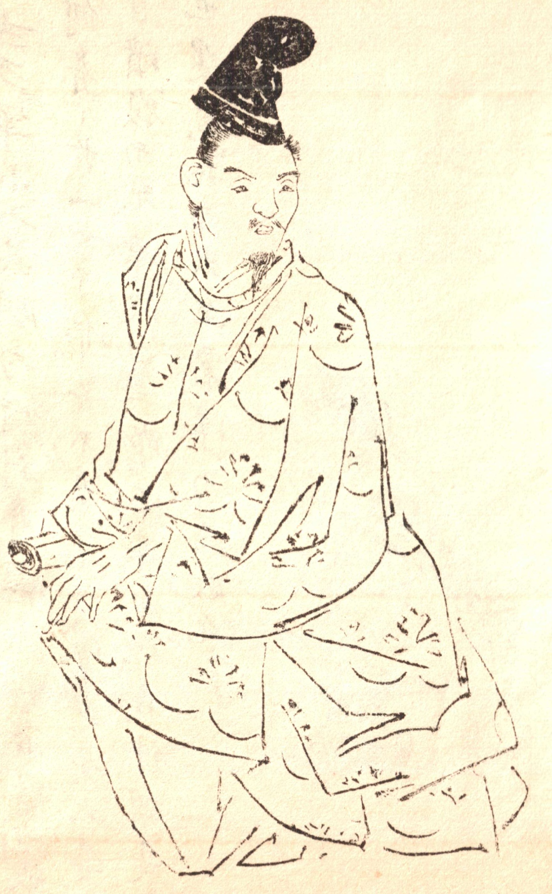 Kiyohara_no_Norinari was a Japanese Confucian in Heian period.